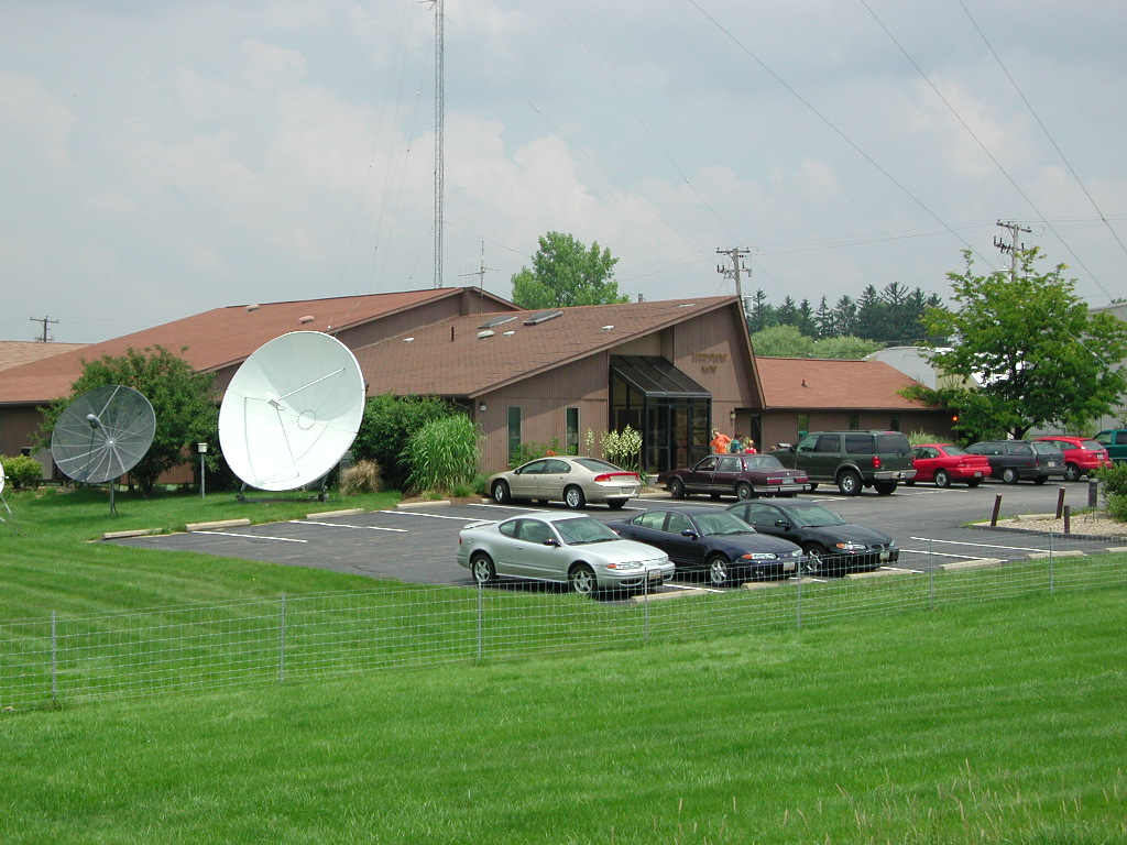 WMFD TV, WVNO FM, WRGM AM/FM, WOHZ TV